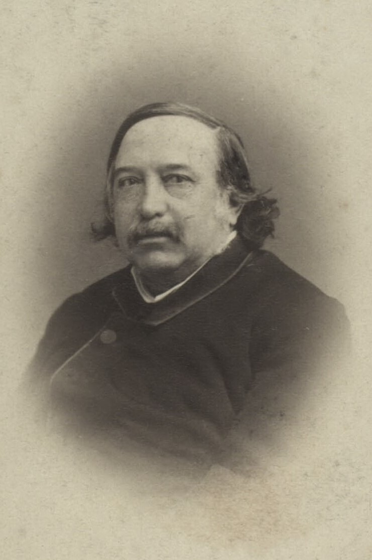 Hans Rasmussen Carlsen(-Lange) (1810-1887), Danish Interior Minister, MP